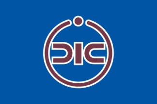 Flag of Shimizutown Shizuoka